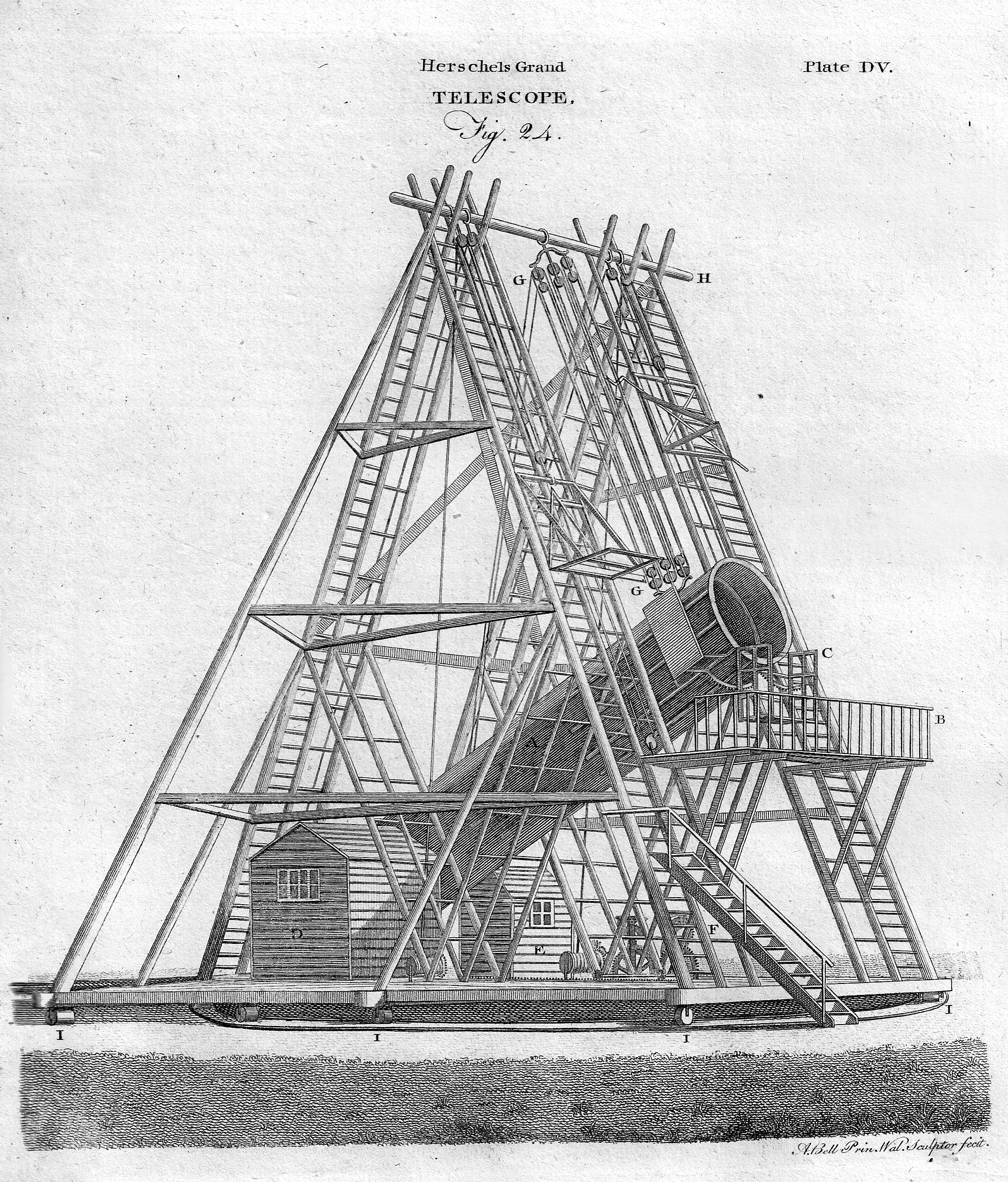 An illustration from the 1797 edition Encyclopaedia Britannica Volume 18 of William Herschel's 120 cm (48-inch) reflecting telescope with a 12 m (40 foot) long focal length, also called his "40-foot telescope". The telescope was constructed between 1785 and 1789 at Observatory House in Slough, England and was the largest in the world for 50 years. It was dismantled in 1840.